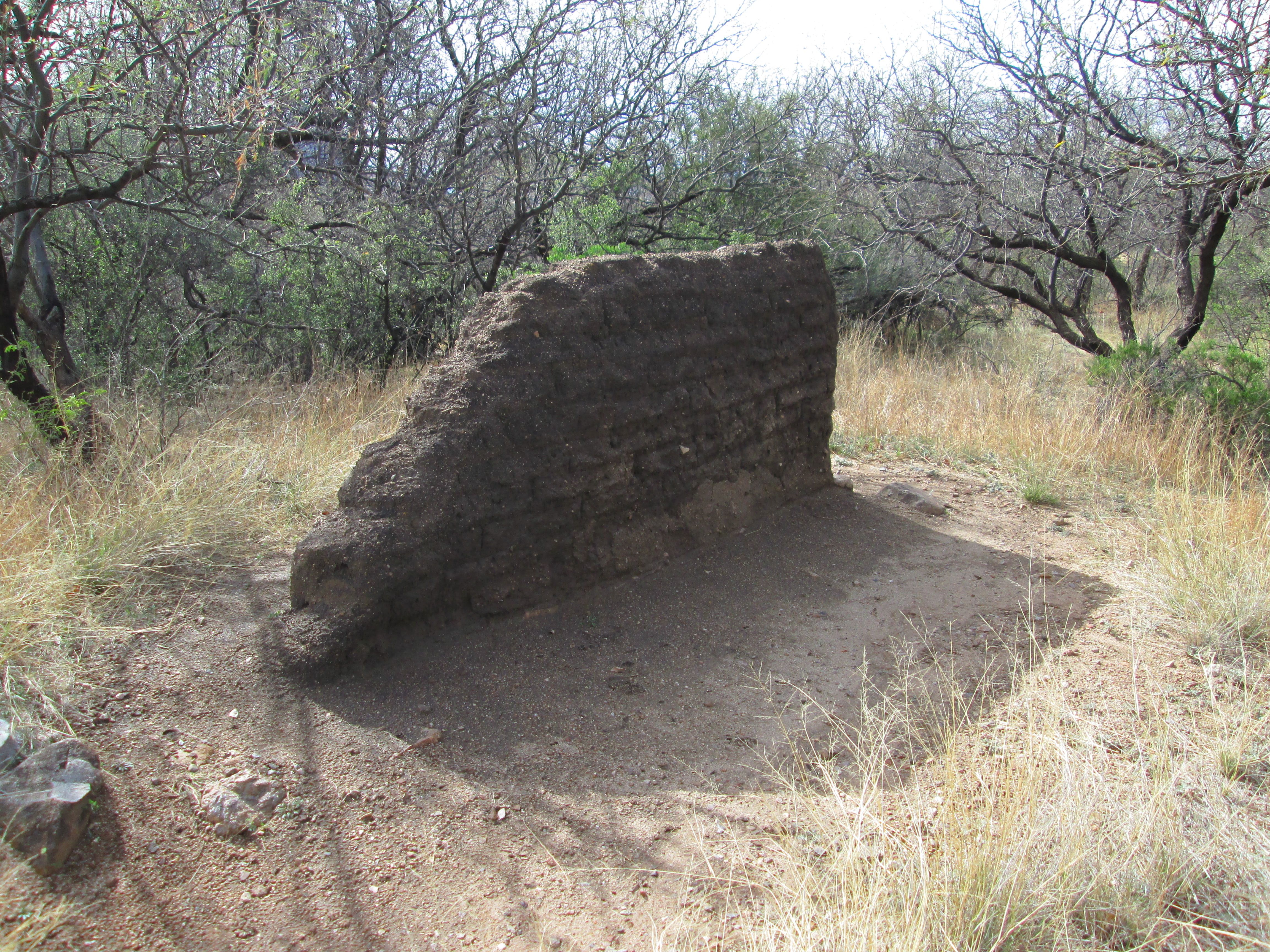 The adobe wall at the White House Ruin in Madera Canyon, Santa Rita Mountains, southern Arizona. March 2, 2014